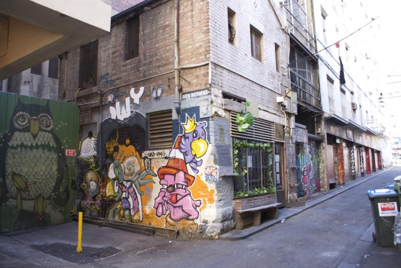 Graffiti on a street corner